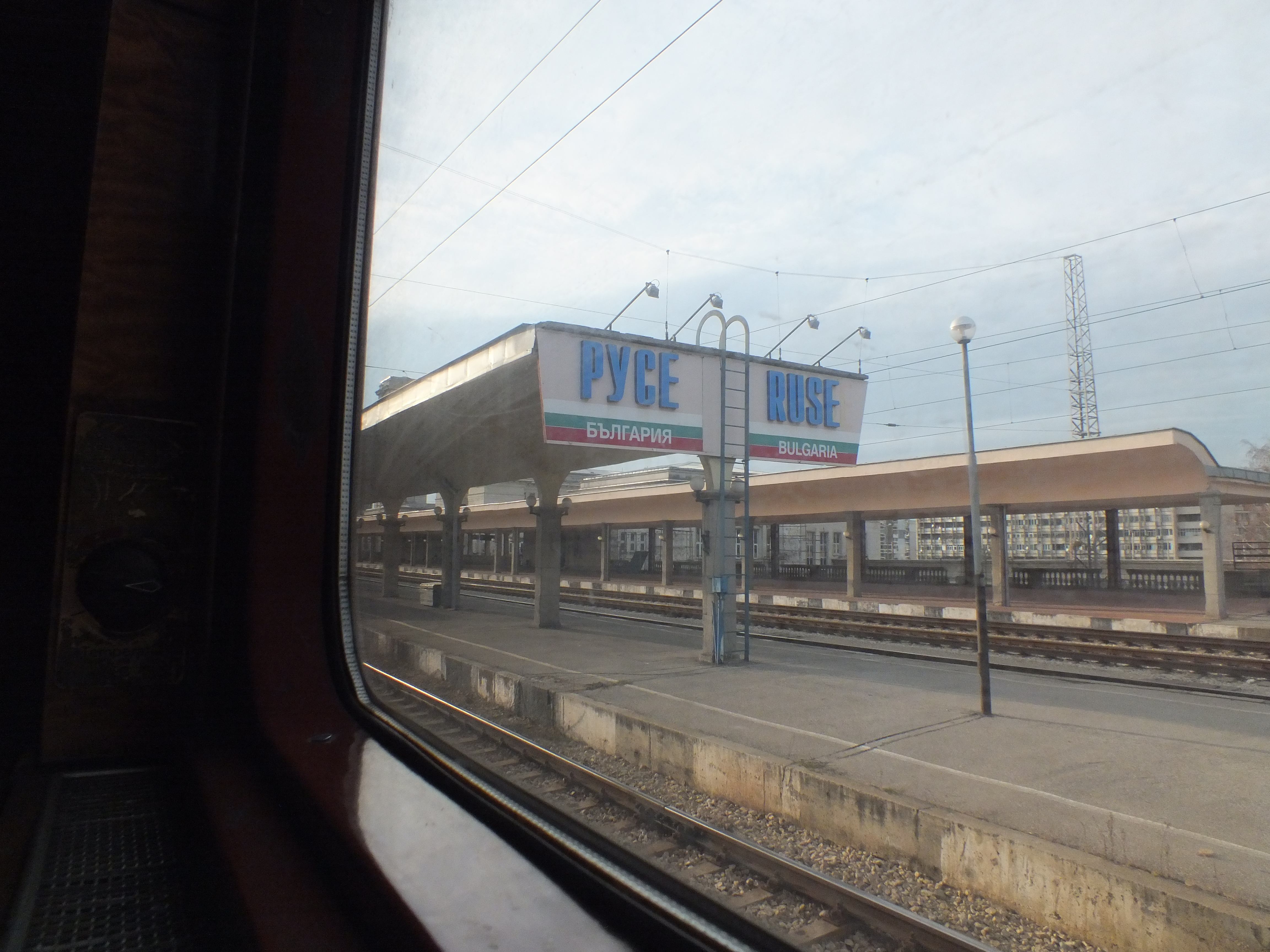 The Russe station sign.